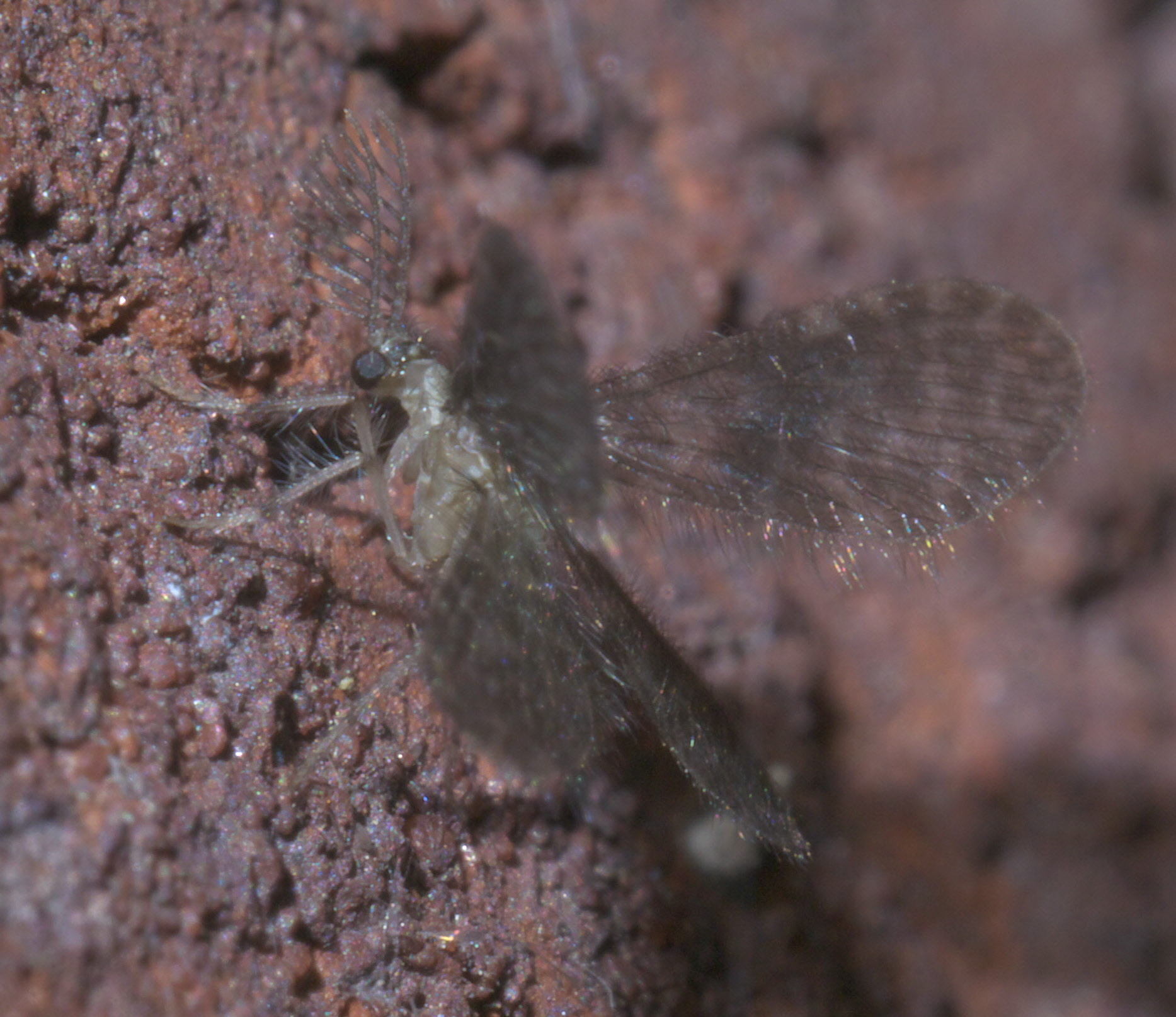 Nallachius americanus, Family: Pleasing Lacewings, Size: about 2.8 mm body length, ID Confidence: 98